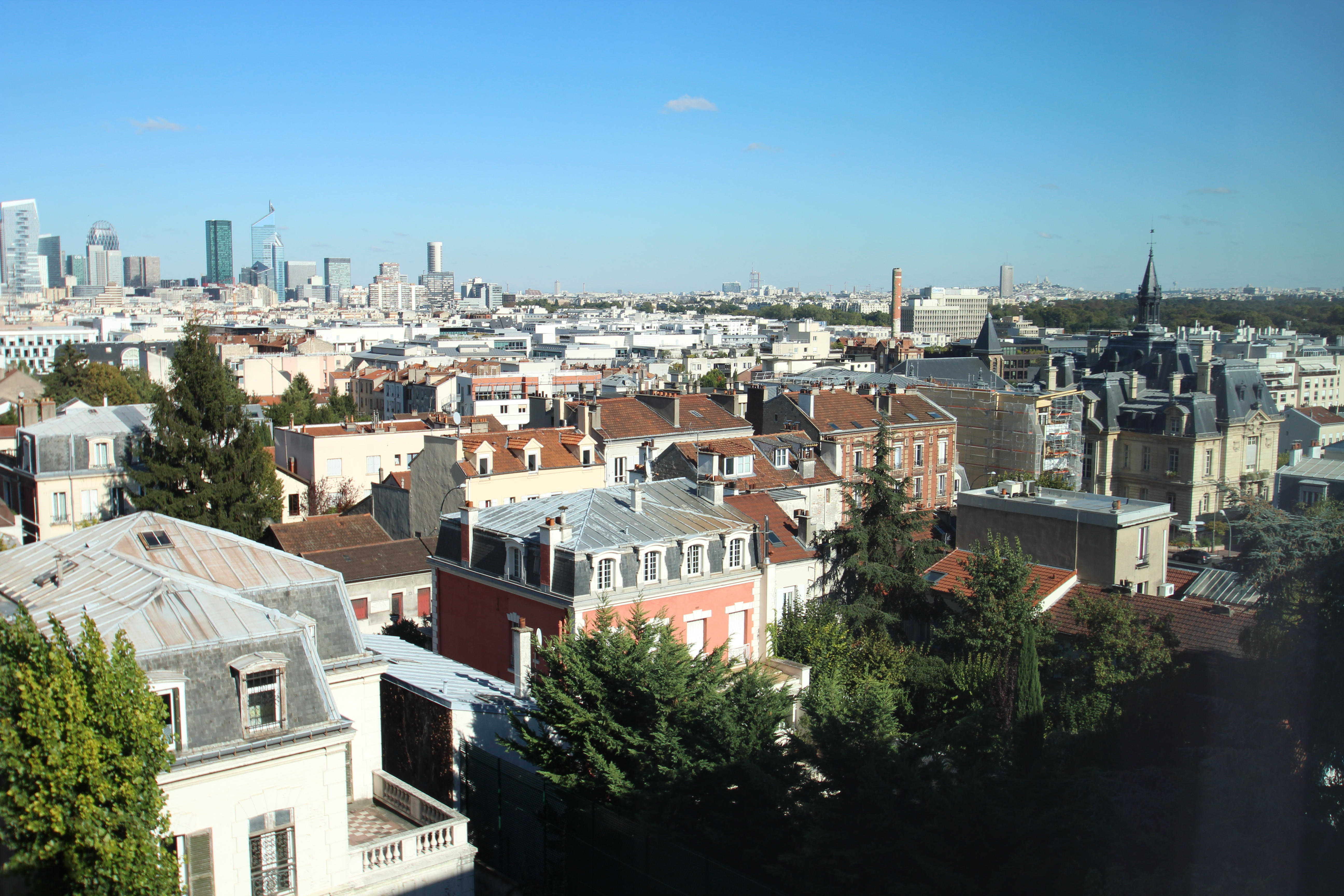 View from the Foch hospital in Suresnes, France. Object location48° 52′ 15.06″ N, 2° 13′ 20.93″ E